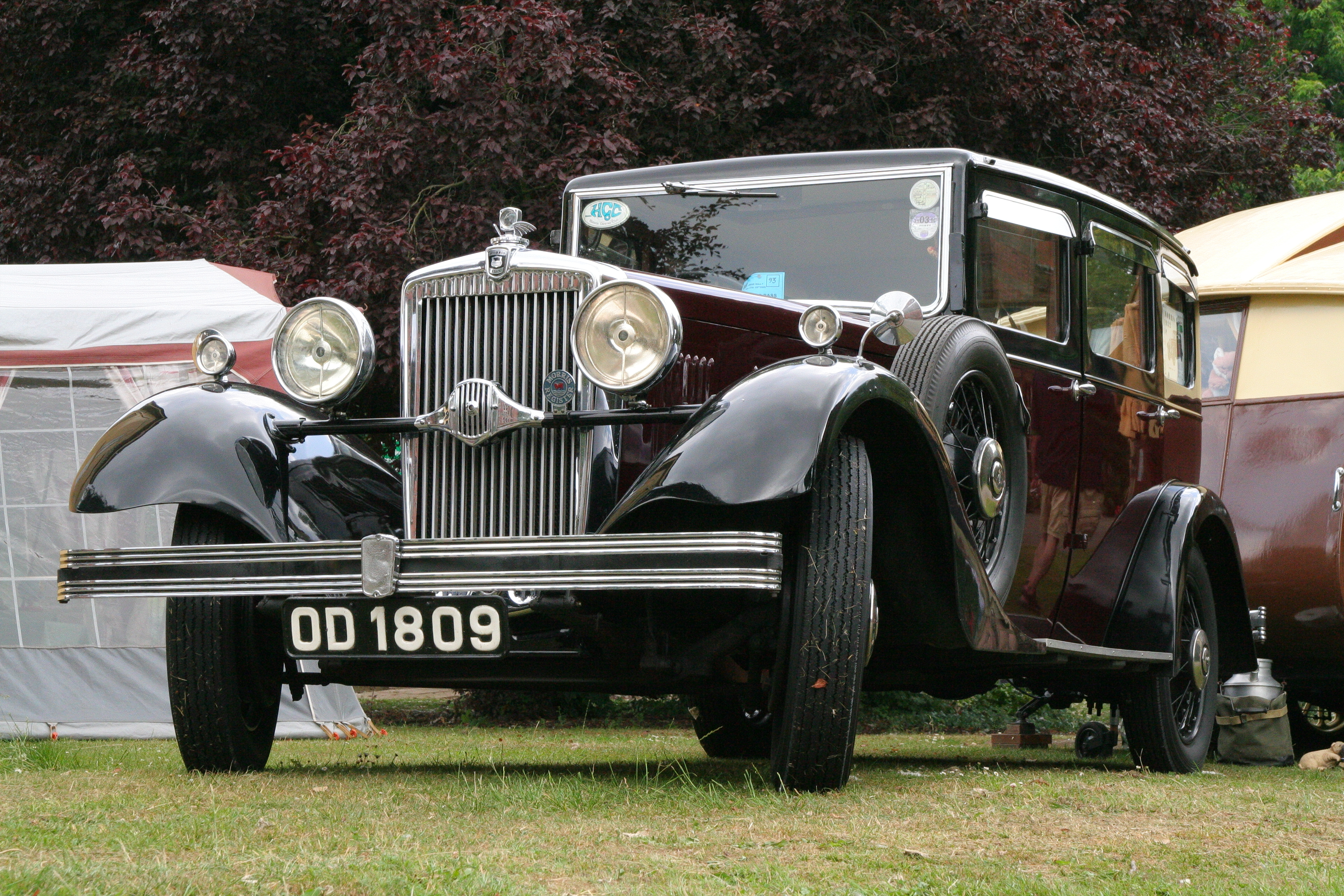 1932 Morris Isis Saloon. ex dvla: 2468cc, manf. 1932, first registered 24 March 1932.